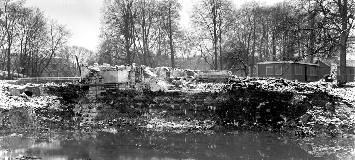 Maastricht, the Netherlands. View of a section of the first city wall, erected around 1230 on top of earlier earthen fortifications.